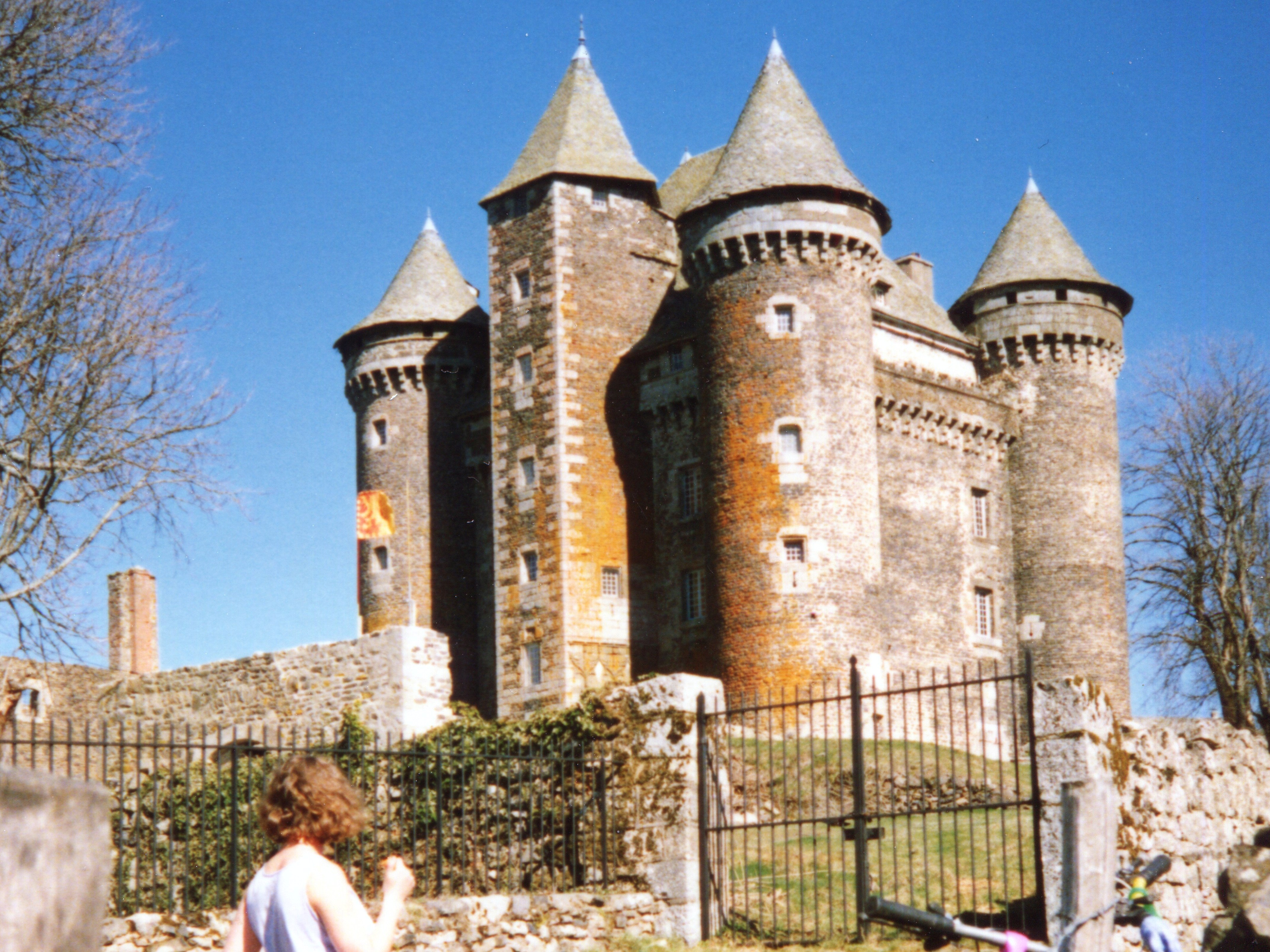 Château du Bousquet en 1990